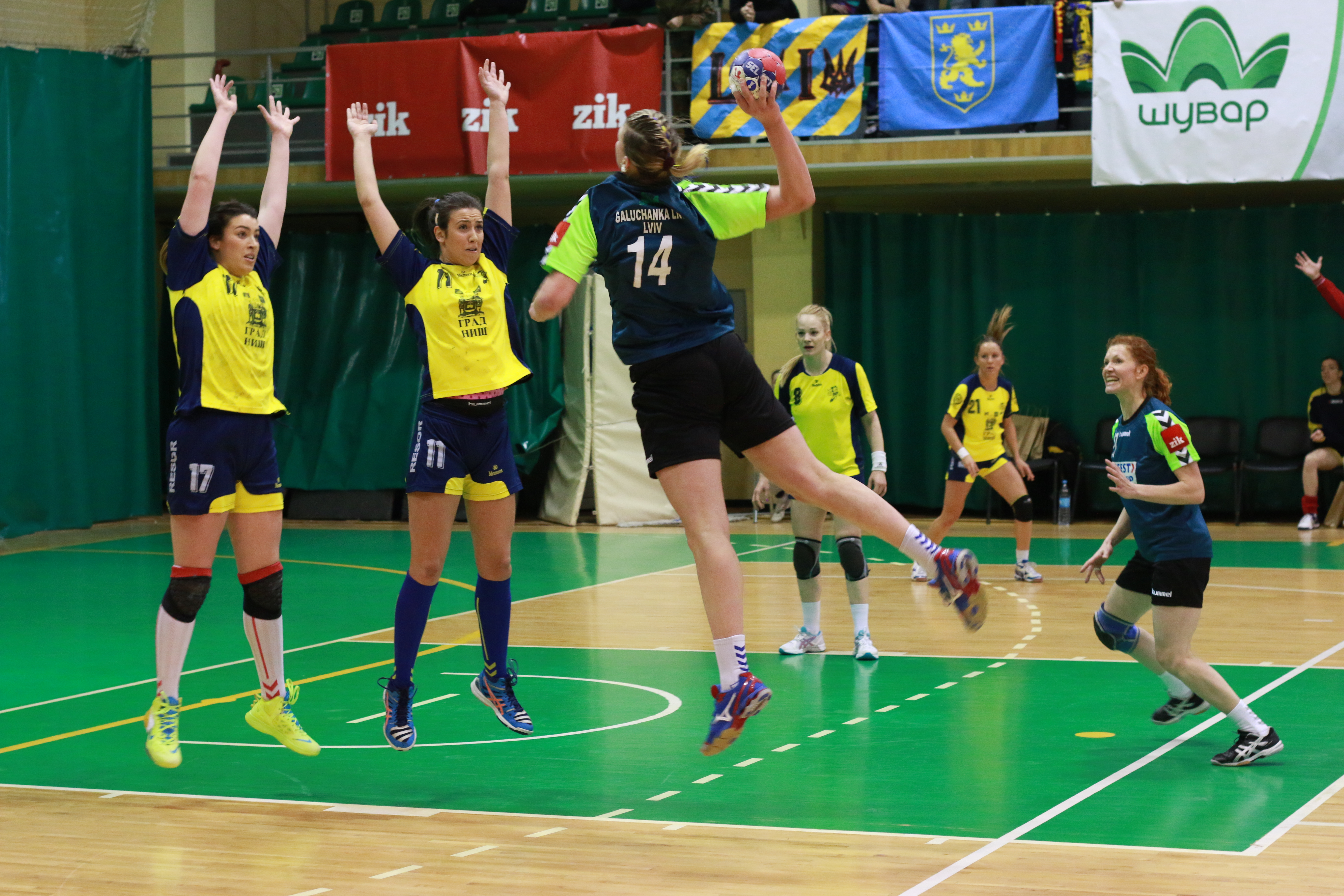 Handball match between Halychanka (Lviv, Ukraine) and Naisa Nis (Serbia) Free throw